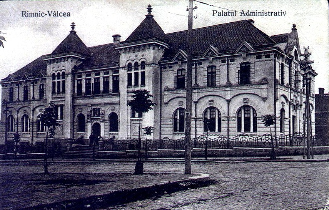 The Administrative Palace in Râmnicu Vâlcea, the house of Vâlcea County Prefecture during the interbelic period, illustrated in an early 20th century picture. The historical building was built in 1900 and today it houses the court.